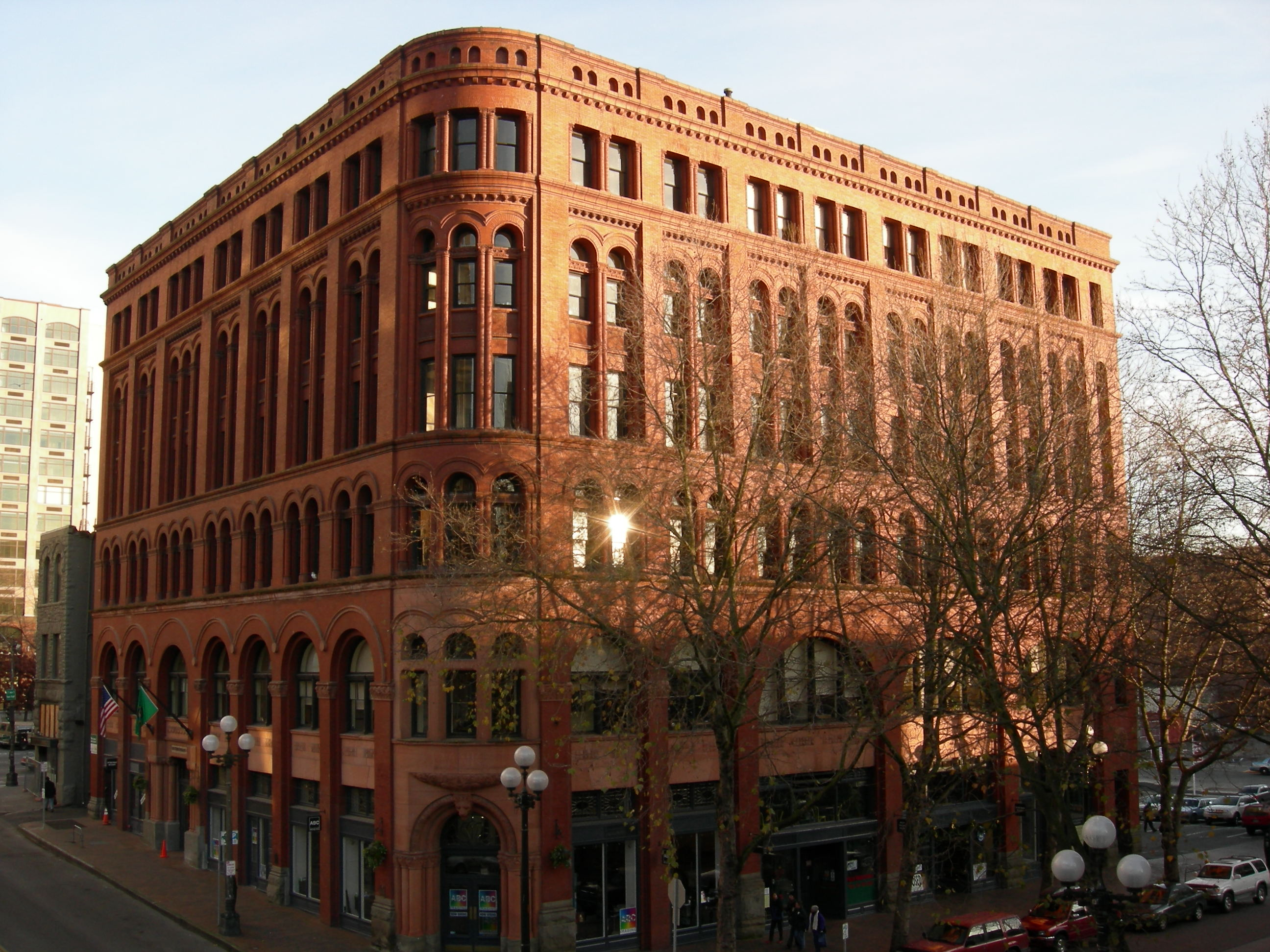 Interurban Building, 102 Occidental Way South, Pioneer Square neighborhood, Seattle, Washington, USA. Built 1892. Previously known as Seattle National Bank Building / Pacific Block / Smith Tower Annex. The building that made the name of British-born architect John Parkinson, later of Los Angeles, California. For more about the building see Summary for 102 Occidental WAY / Parcel ID 5247800555, Seattle Department of Neighborhoods. (Same building, even though they omit "South" from the address.)